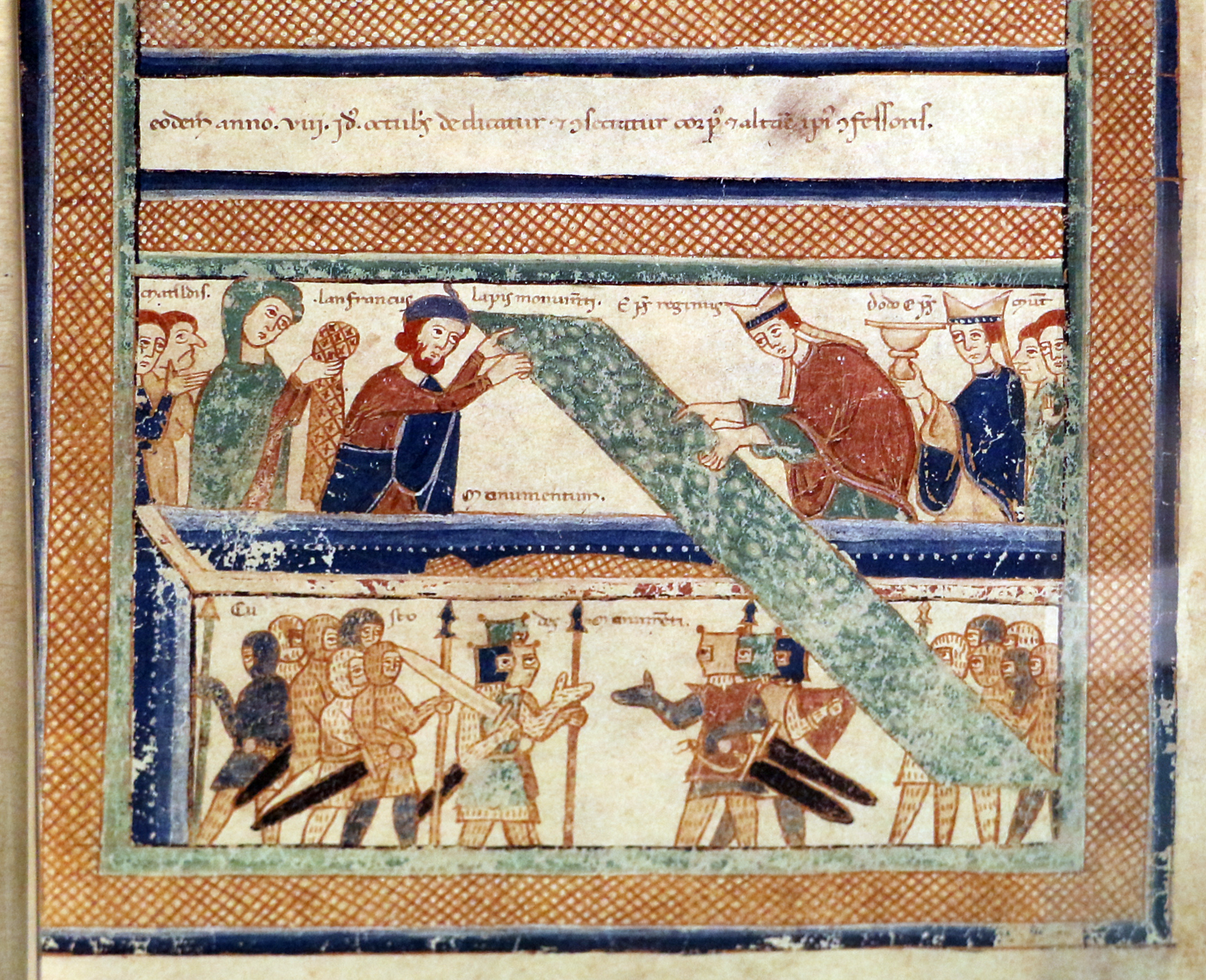 Museo della Cattedrale (Modena)